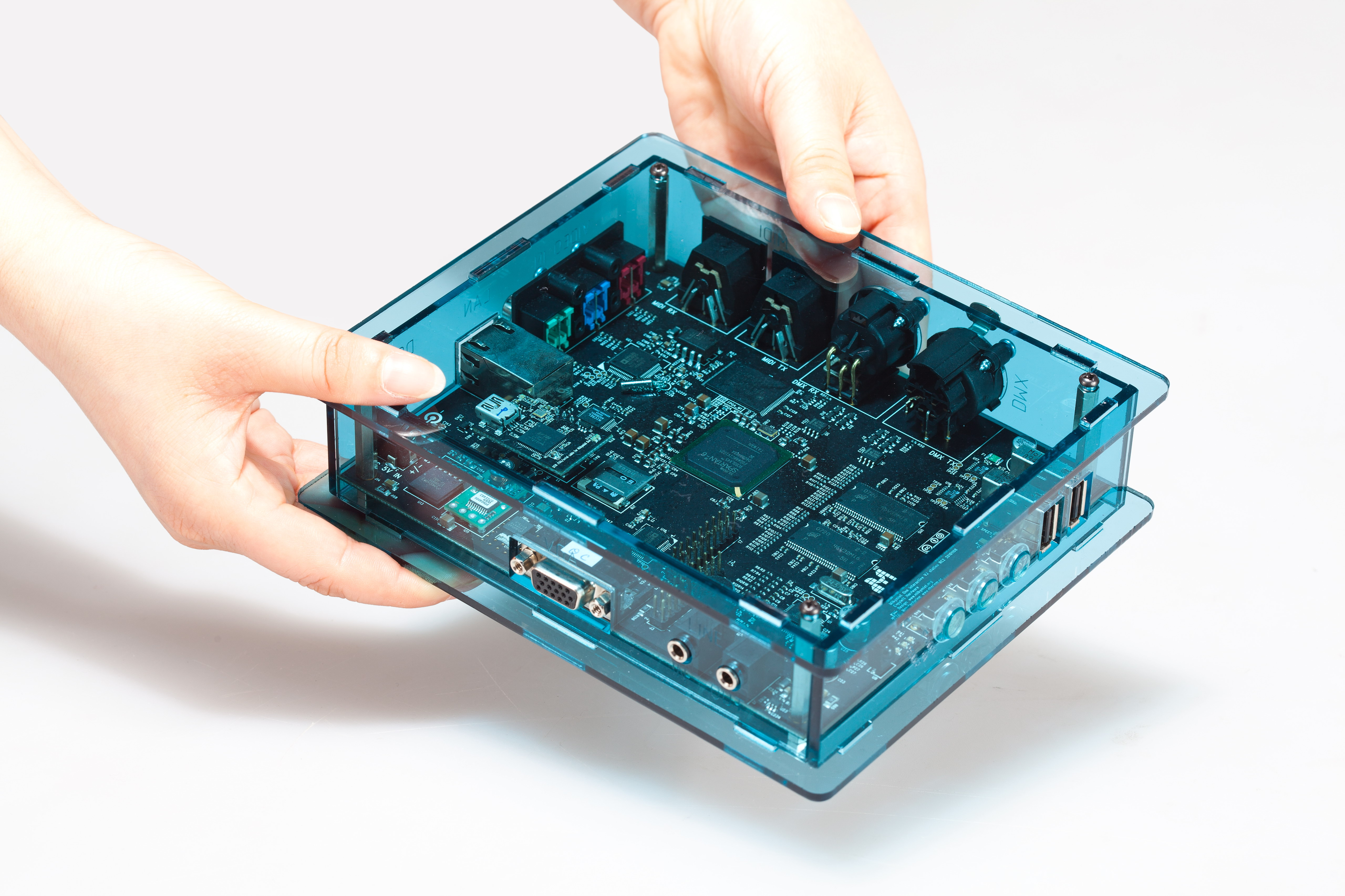 The Milkymist One interactive VJ station.